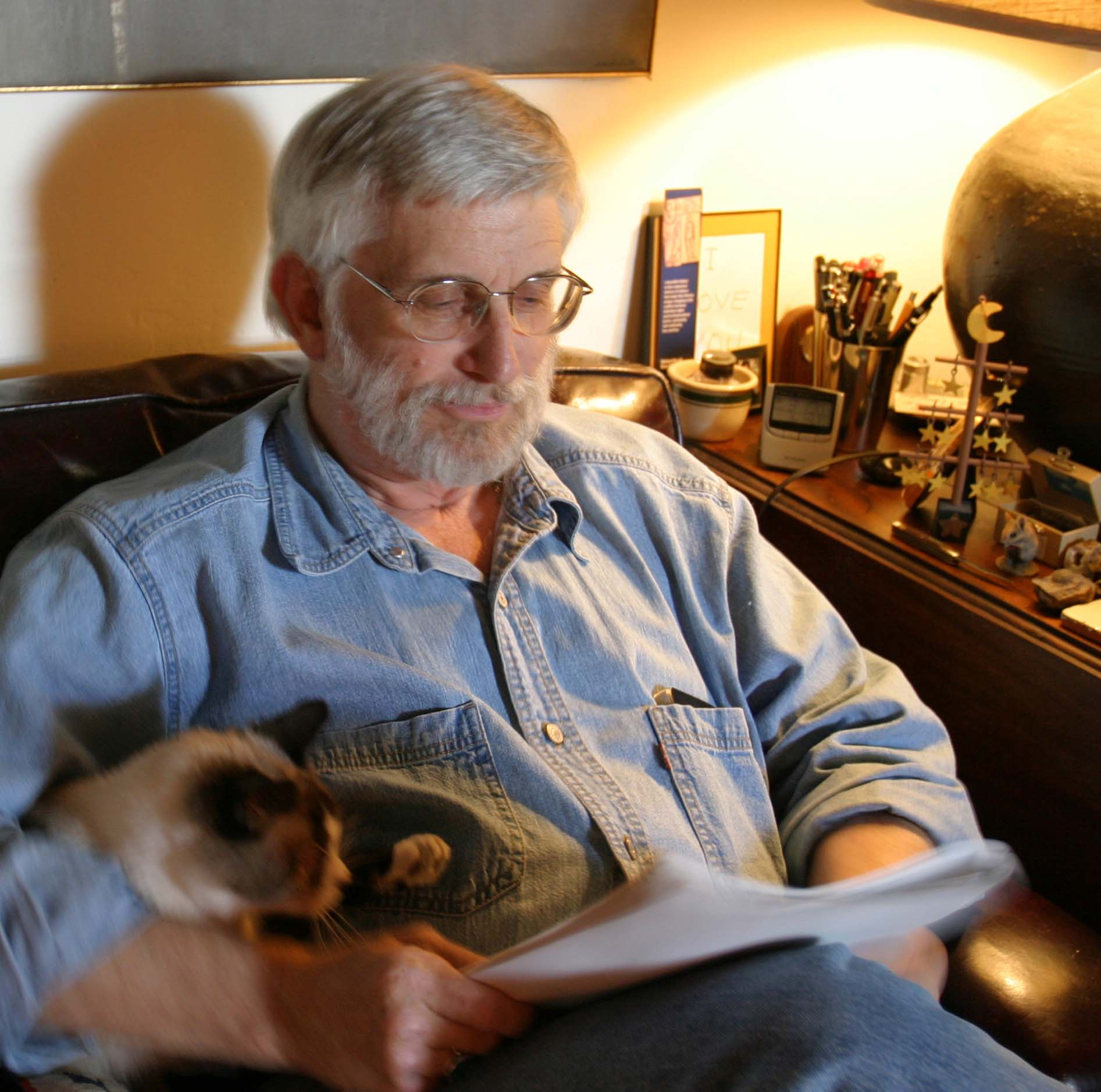 V.B. Price photographed by Gloria Graham during the taping of Add-Verse.